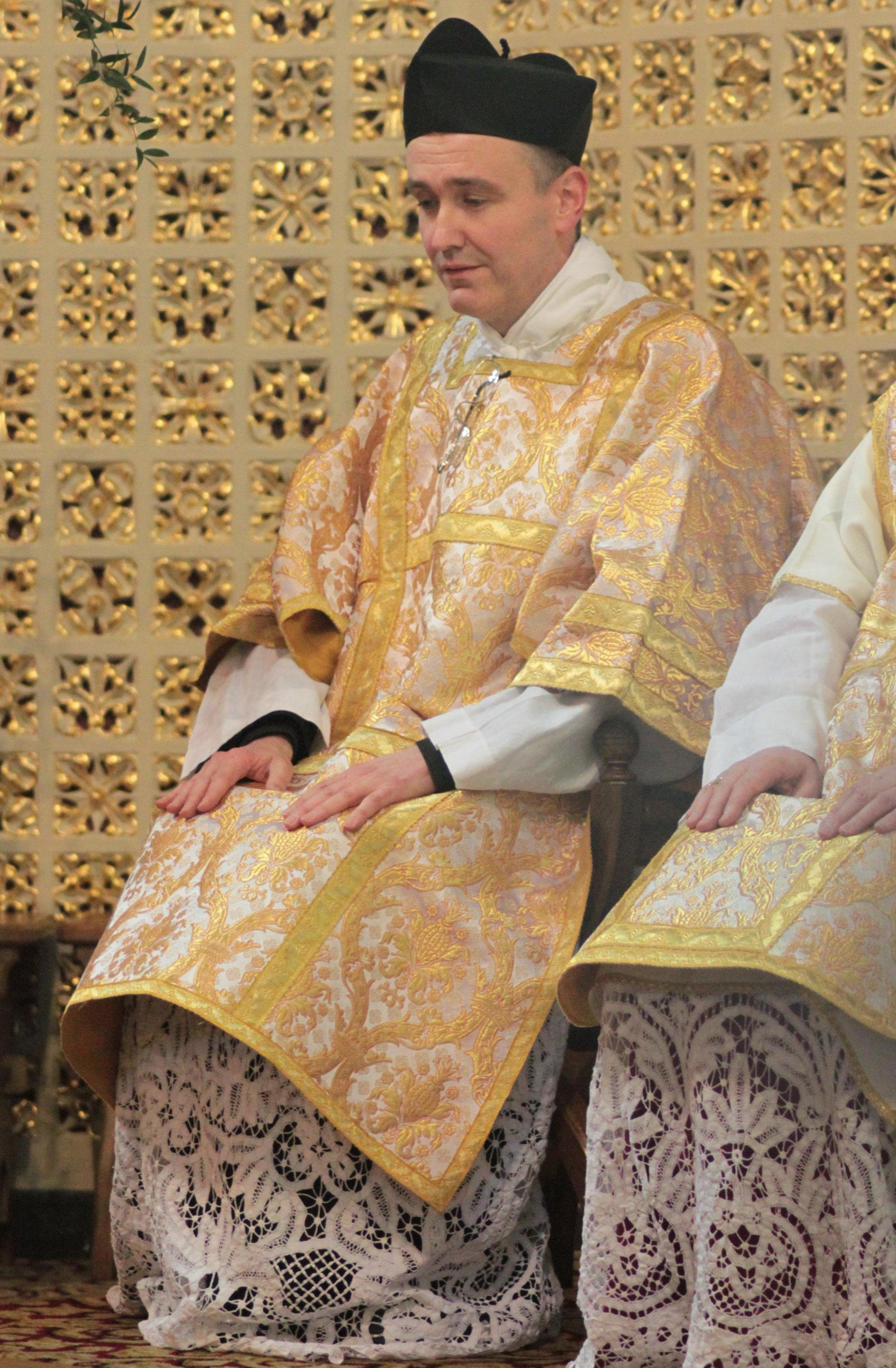 Deacon wearing a dalmatic and a biretta (Fr Dominic Jacob Cong. Orat. of Oxford Oratory)